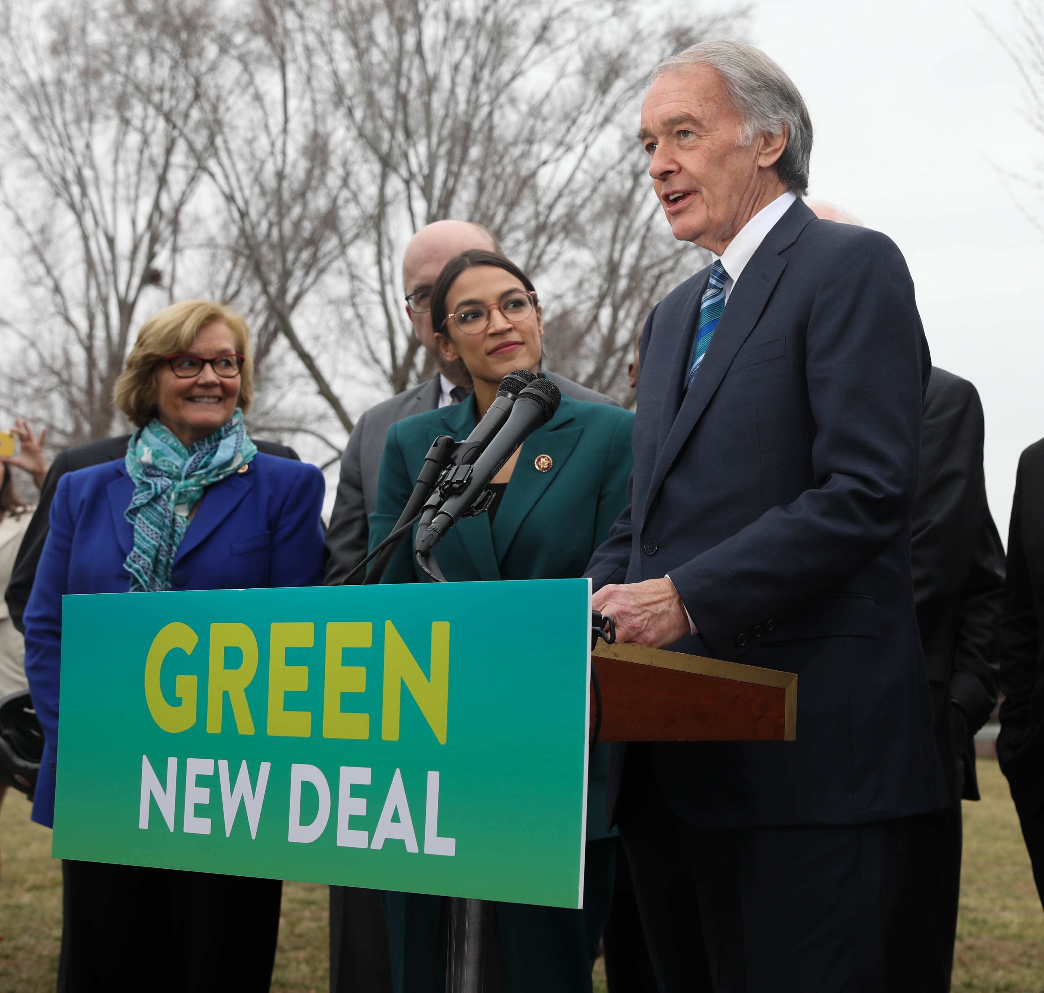 GreenNewDeal_Presser_020719 (7 of 85)